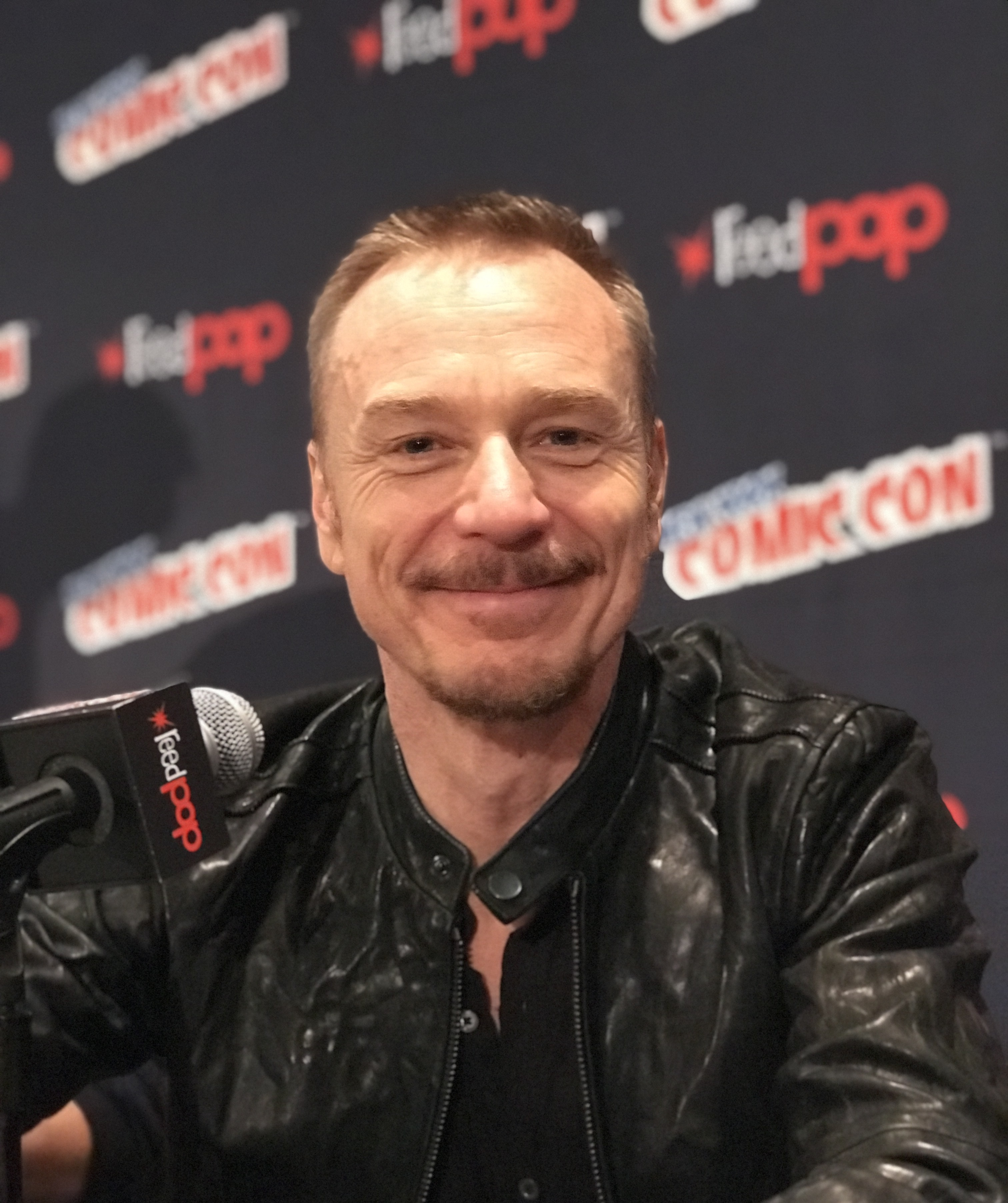 Actor Ben Daniels at a panel discussion on the 2016 - 2018 TV series The Exorcist on Sunday, October 8, 2017 at the Jacob K. Javits Convention Center in Manhattan, Day 4 of the 2017 New York Comic Con. This photo was created by Luigi Novi. It is not in the public domain, and use of this file outside of the licensing terms is a copyright violation.